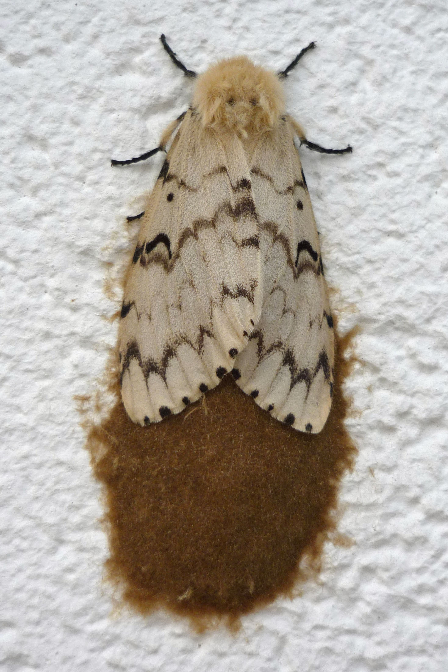 Gypsy moth (Lymantria dispar) female with egg cluster